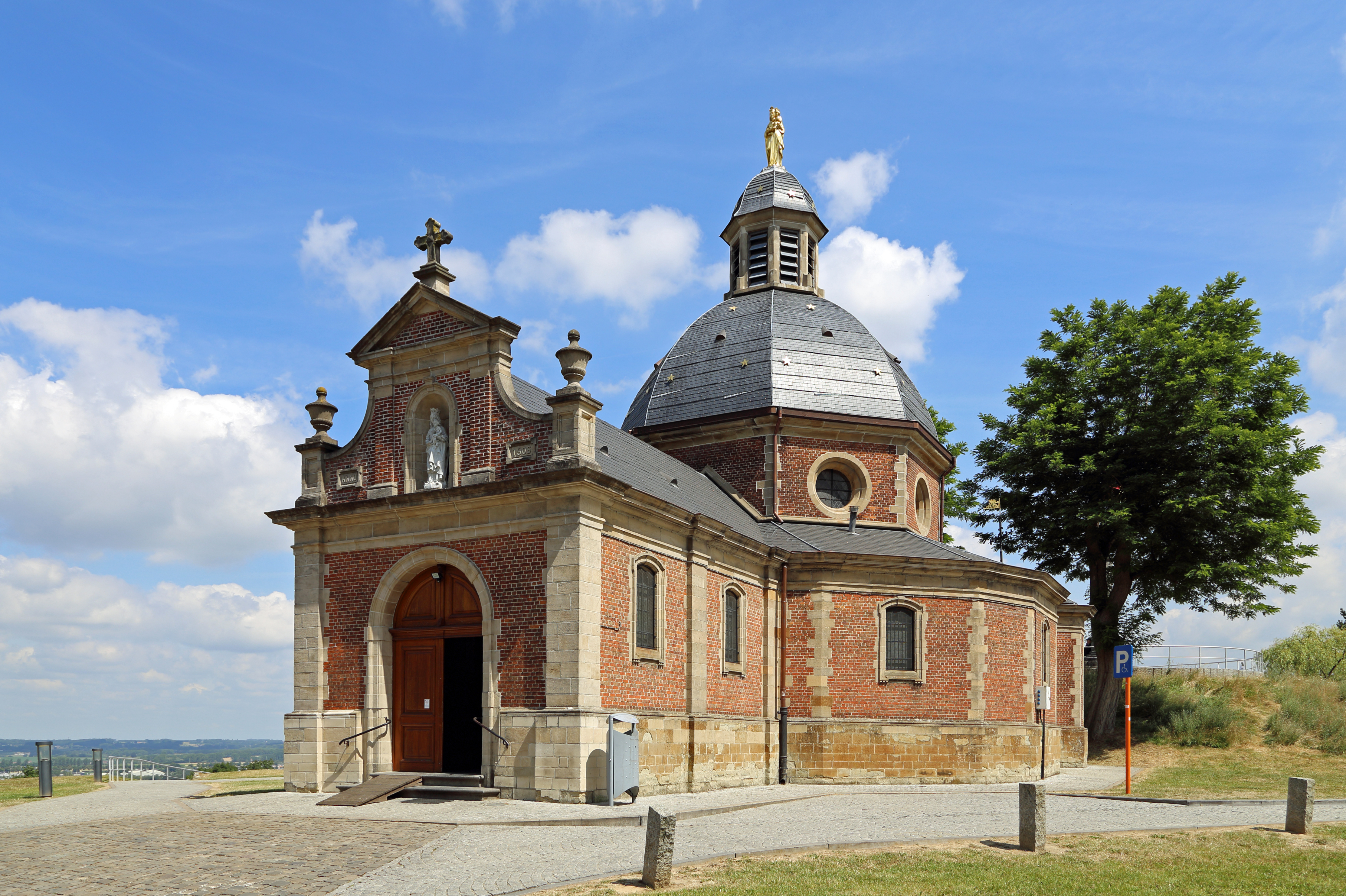 Geraardsbergen (Belgium): chapel of Our Lady of Oudeberg